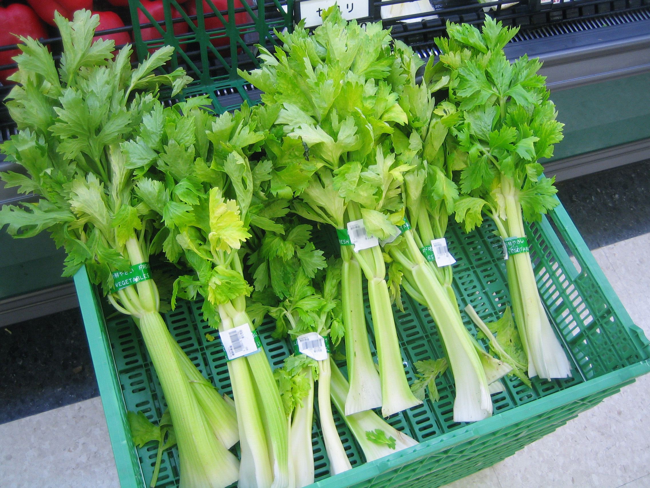 Celery